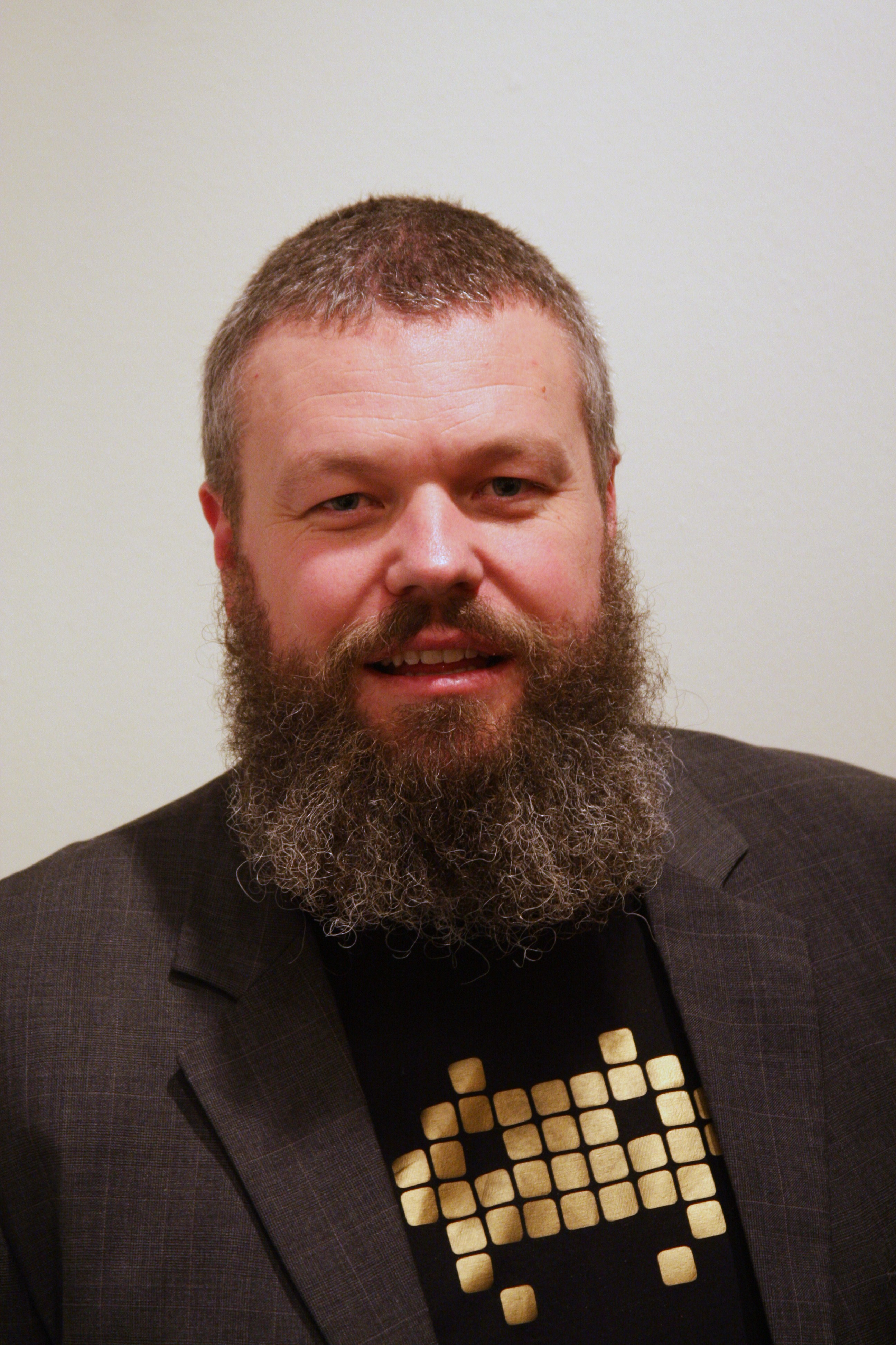 Torgeir Waterhouse, the man behind the iTunes case inm Norway. Photo taken at Wikipedia 10ys anniversary, Oslo.